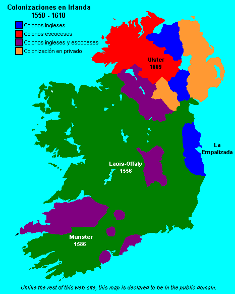 Map of Ireland in 1609 showing the major Plantations of Ireland, translated to Spanish